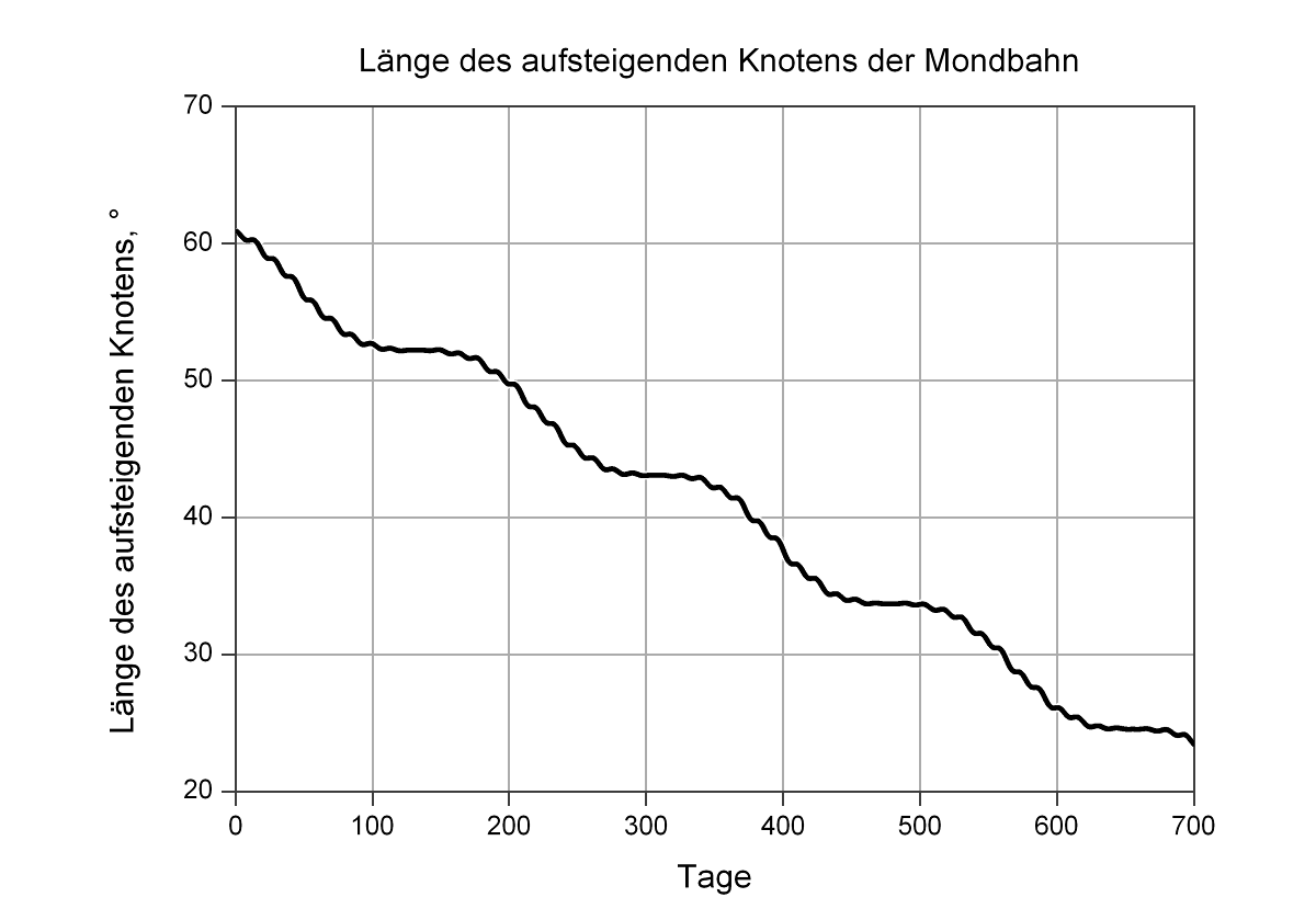 Movement of the ascending node of the instantaneous osculating ellipse describing the Moon's orbit over 700 days. Drawn by myself. Data from JPL's HORIZONS ephemeris generator.